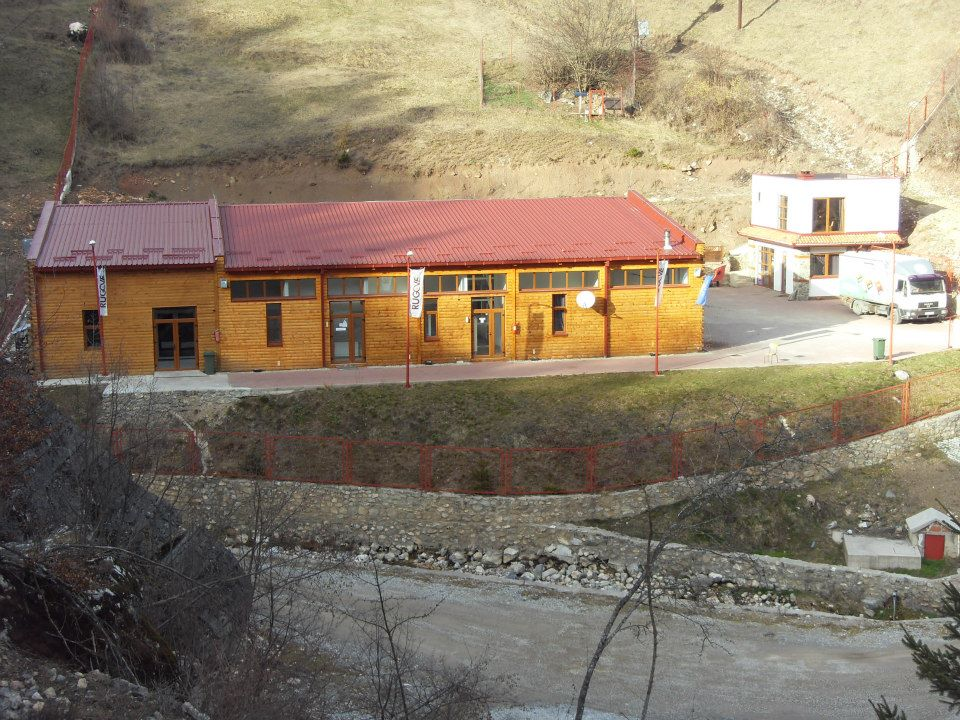 Cheese factory "Rugove"